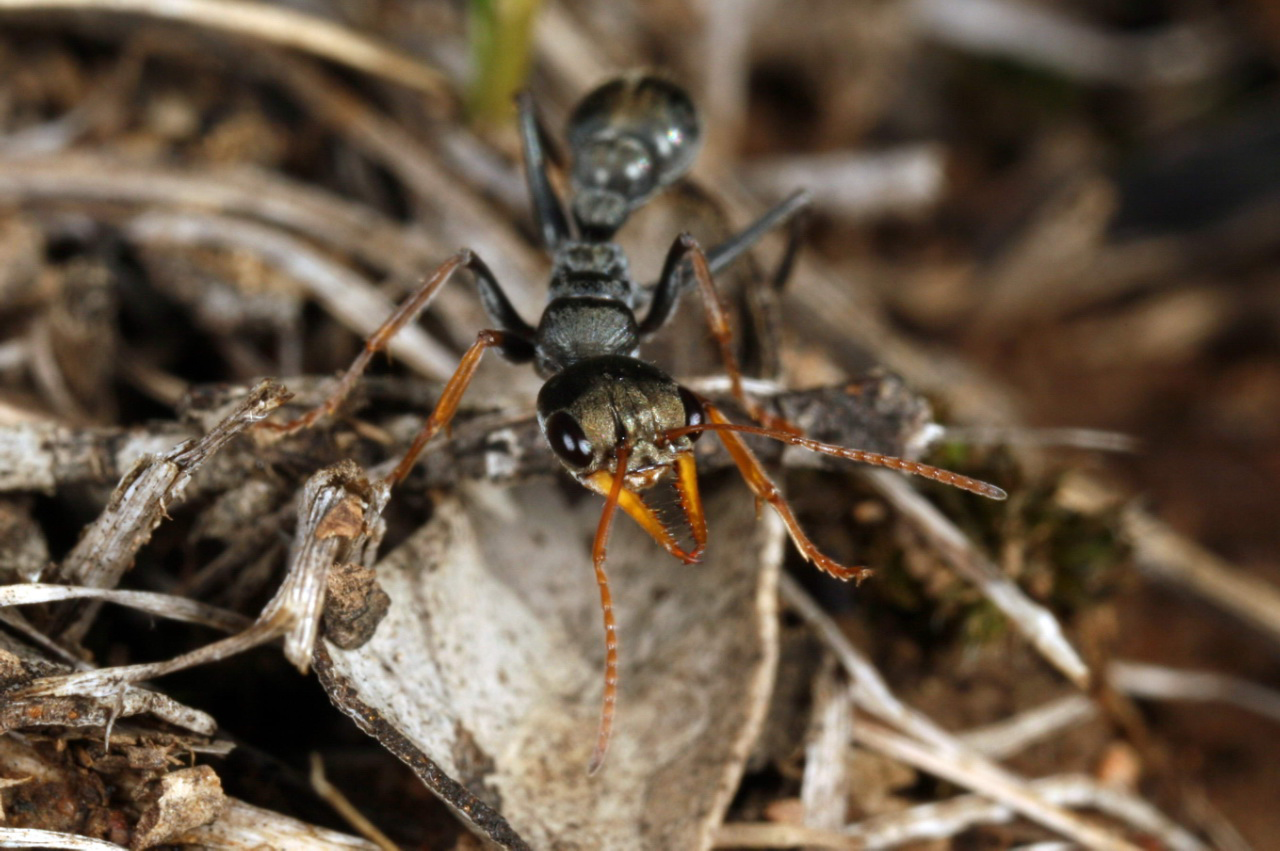 A small species of Myrmecia on patrol near its nest.